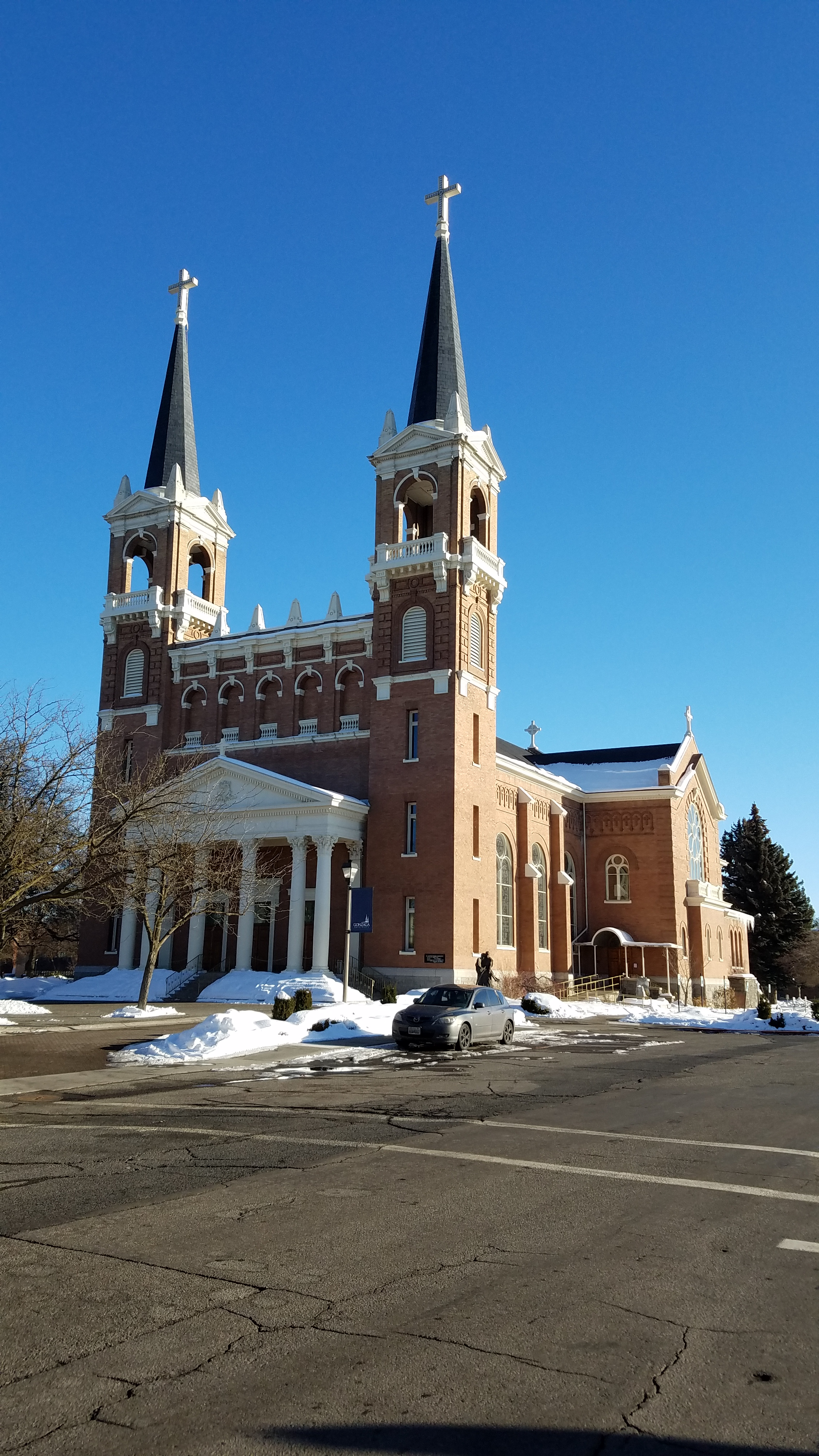 St. Aloysius Church at the edge of Gonzaga University campus in Spokane, WA